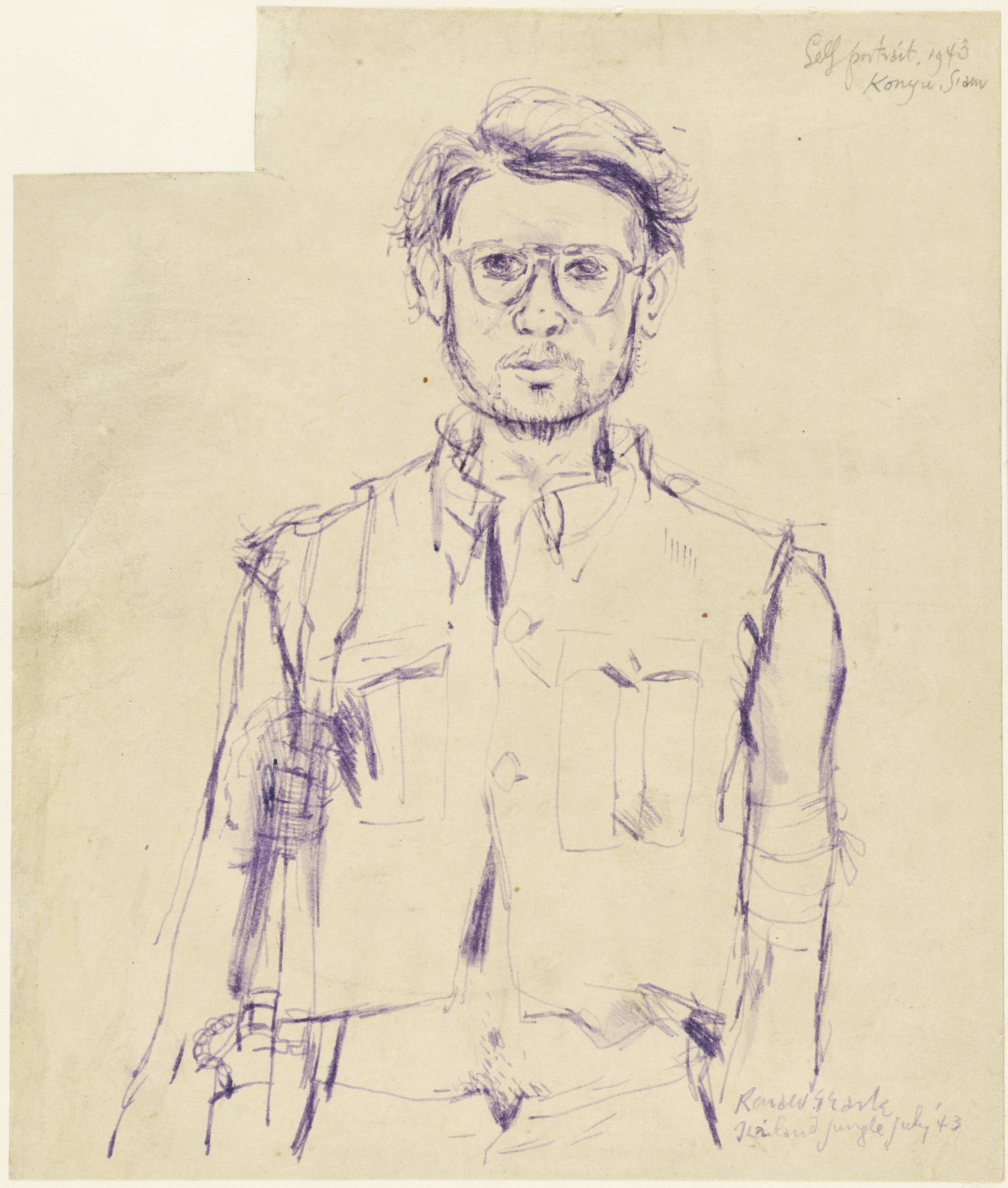 In the Jungle - Self Portrait, Konyu, Thailand Jungle, July 1943 image: A self portrait showing the artist in ragged uniform. He wears glasses, has a bandage round one arm and appears very thin.